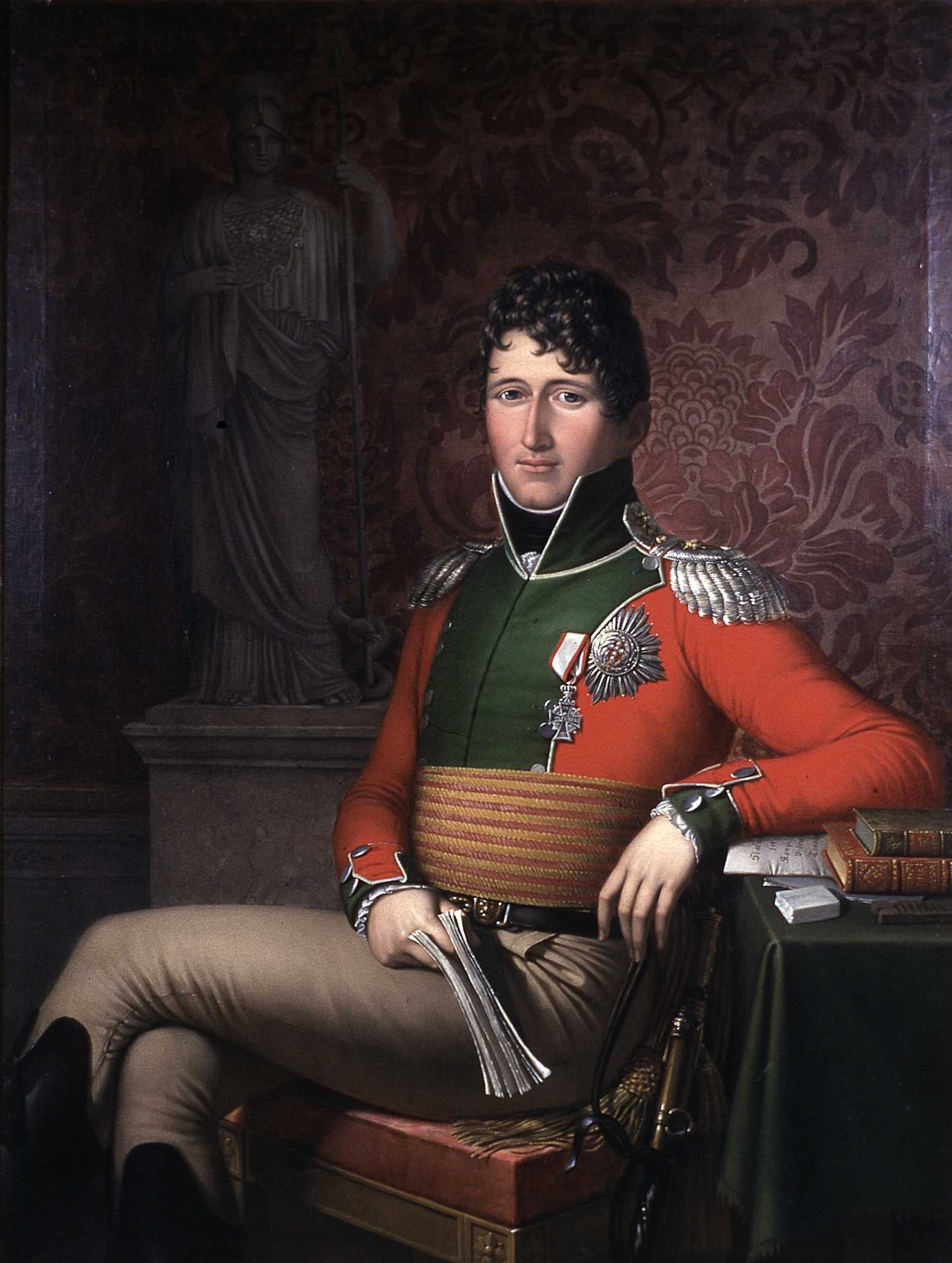 Christian Frederik of Norway / Christian VIII of Denmark. Painted in Danmark in 1813, before he came to Norway as governor-general.